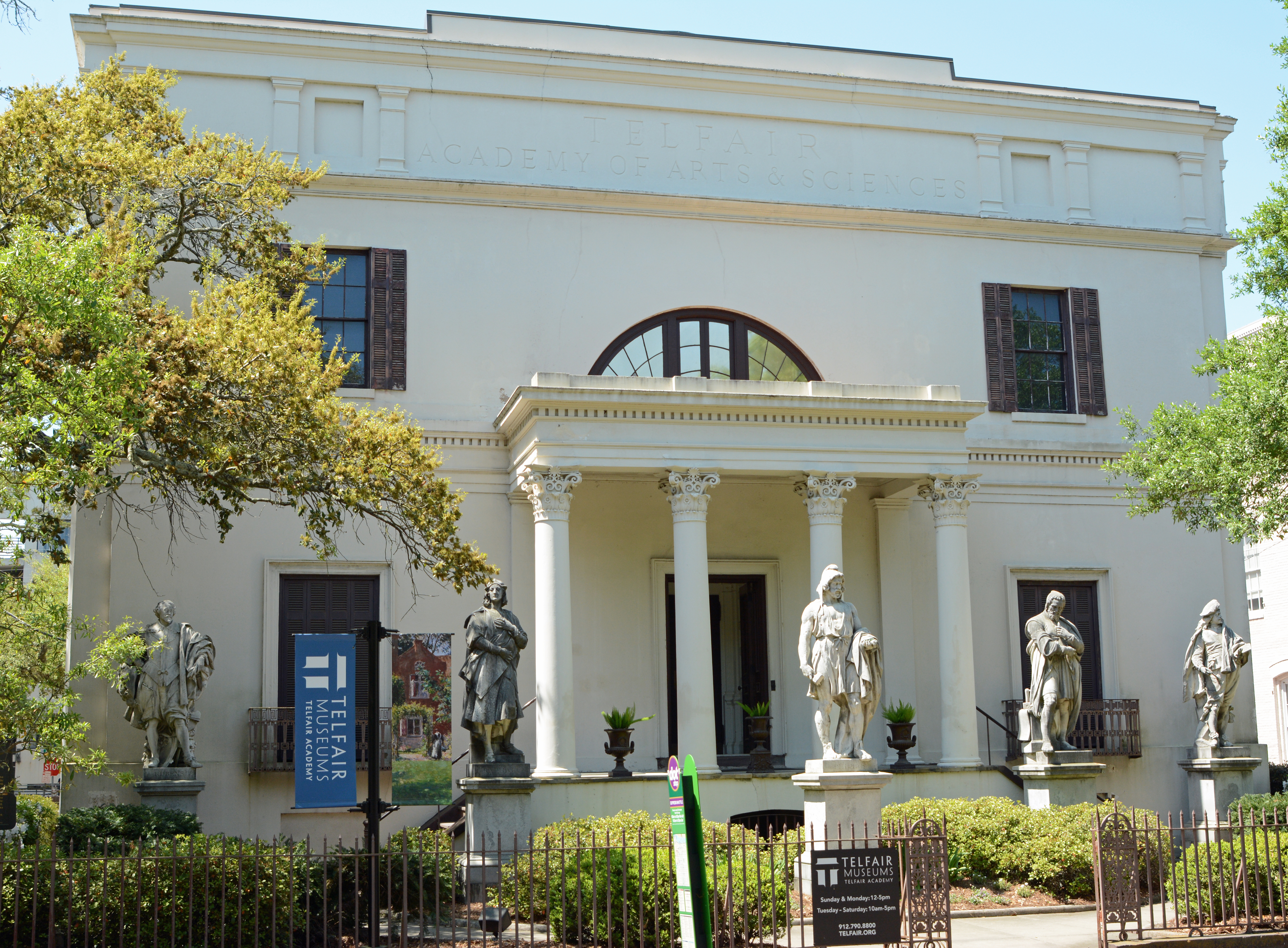 Telfair Academy of Arts and Sciences in Savannah, Georgia USA